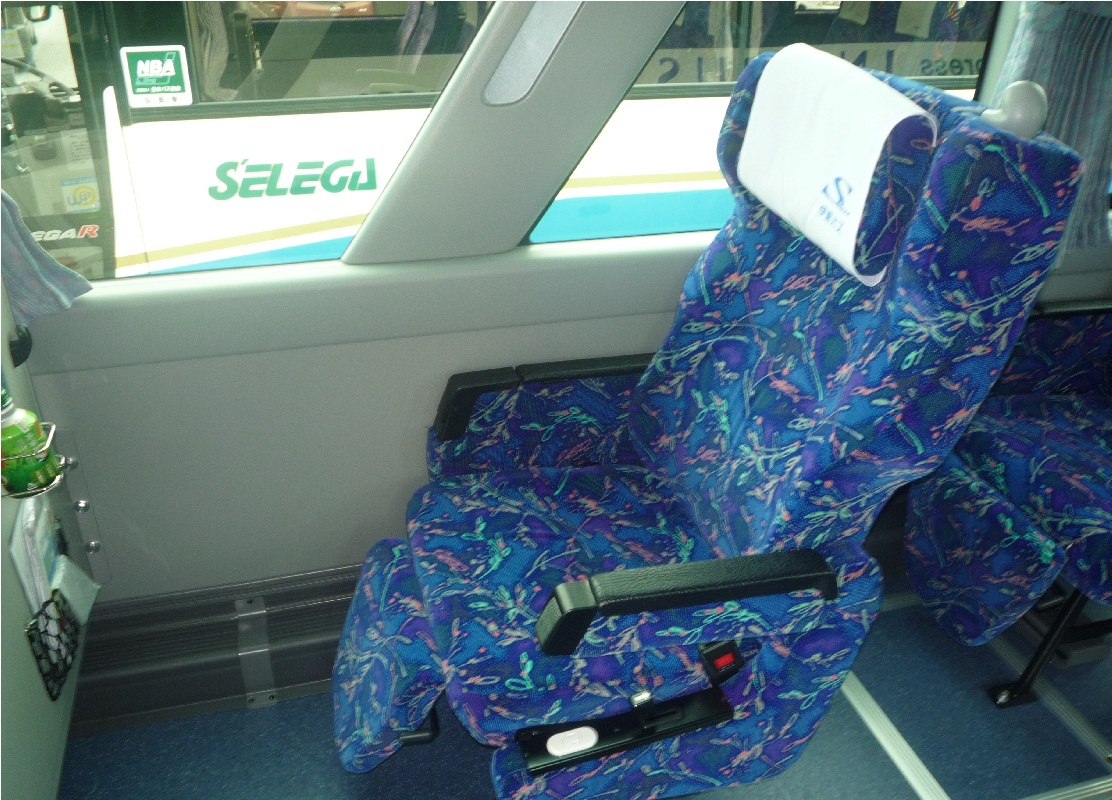 伊那バス 松川営業所 23184号車 Ｓクラスシート １Ｃ座席